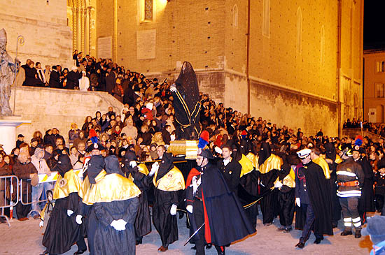 The Good Friday Procession in Chieti, which is organized by the Mount of the Dead Brotherhood, was founded problably in 842 B.C.. It is now considered one of the most ancient processions in Italy.